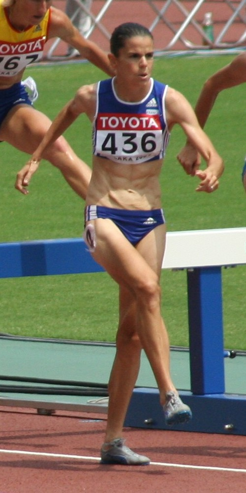 World Athletics Championships 2007 in Osaka - Women's 3000 meter steeplechase 3rd heat. Sophie Duarte (436)